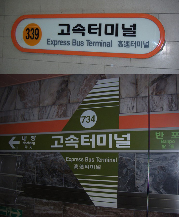 Express Bus Terminal Station